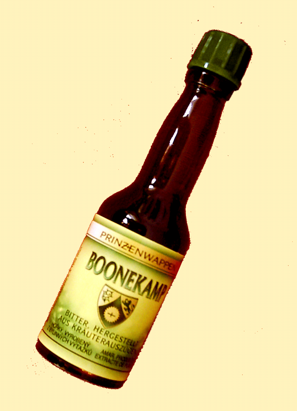 A Bottle of Boonekamp - a bitterliquoer. Here is czech production.